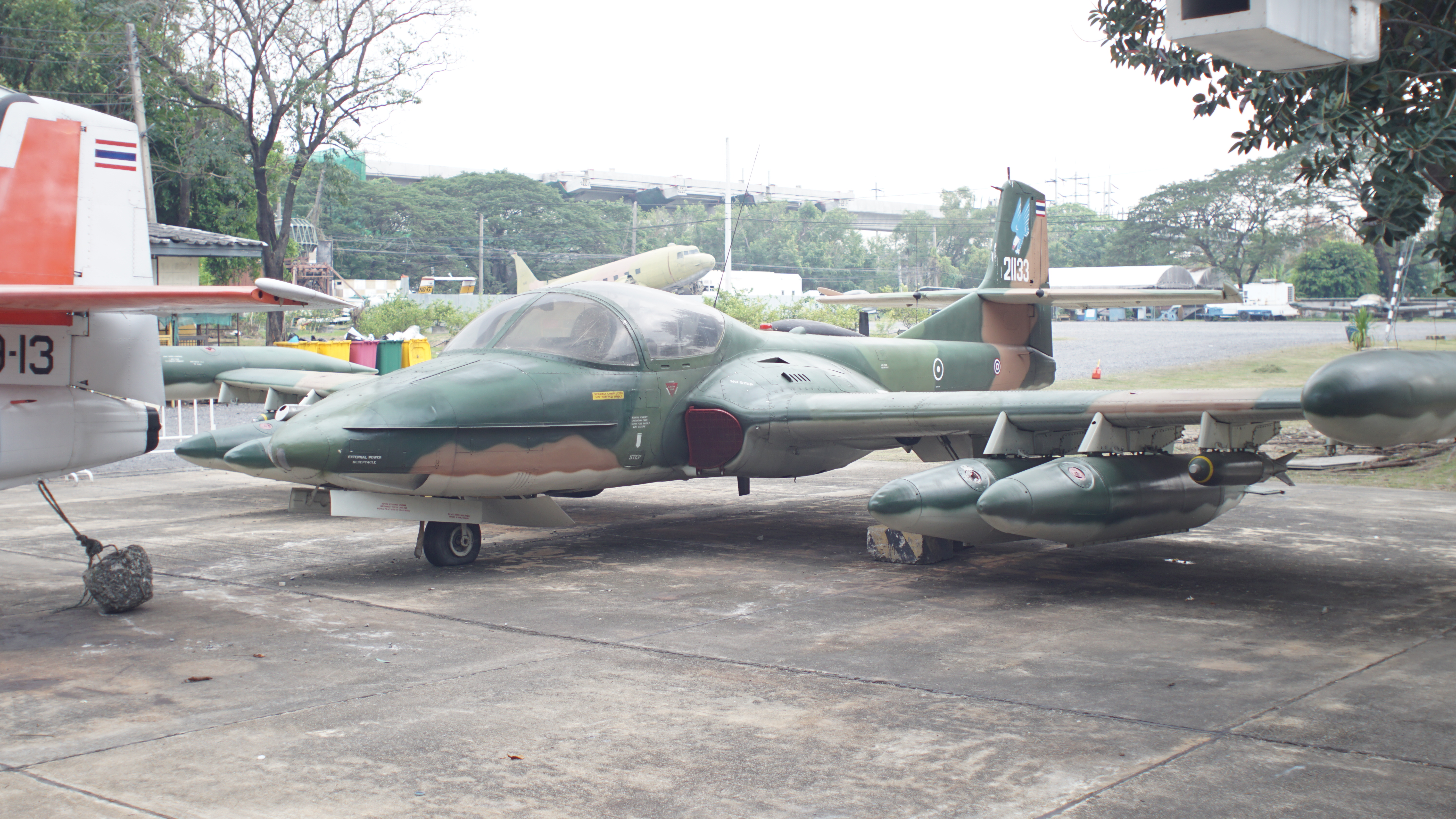 A-37 B displays at the Royal Thai Air Force Museum